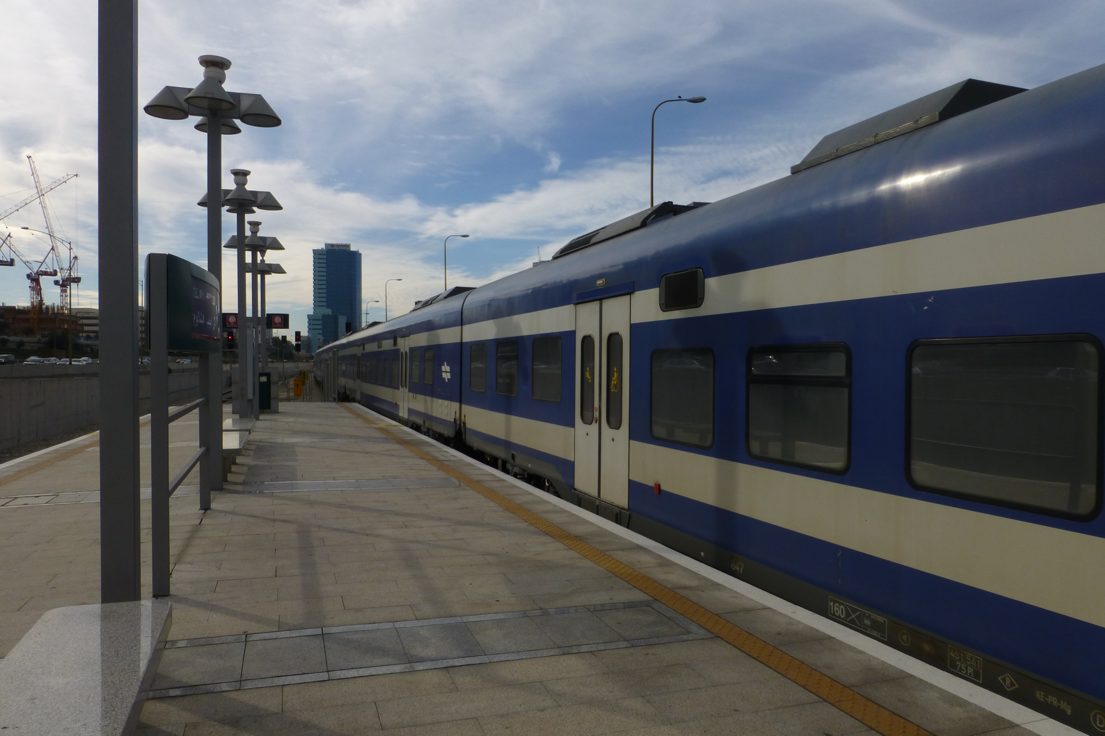 Tel Aviv HaShalom train station